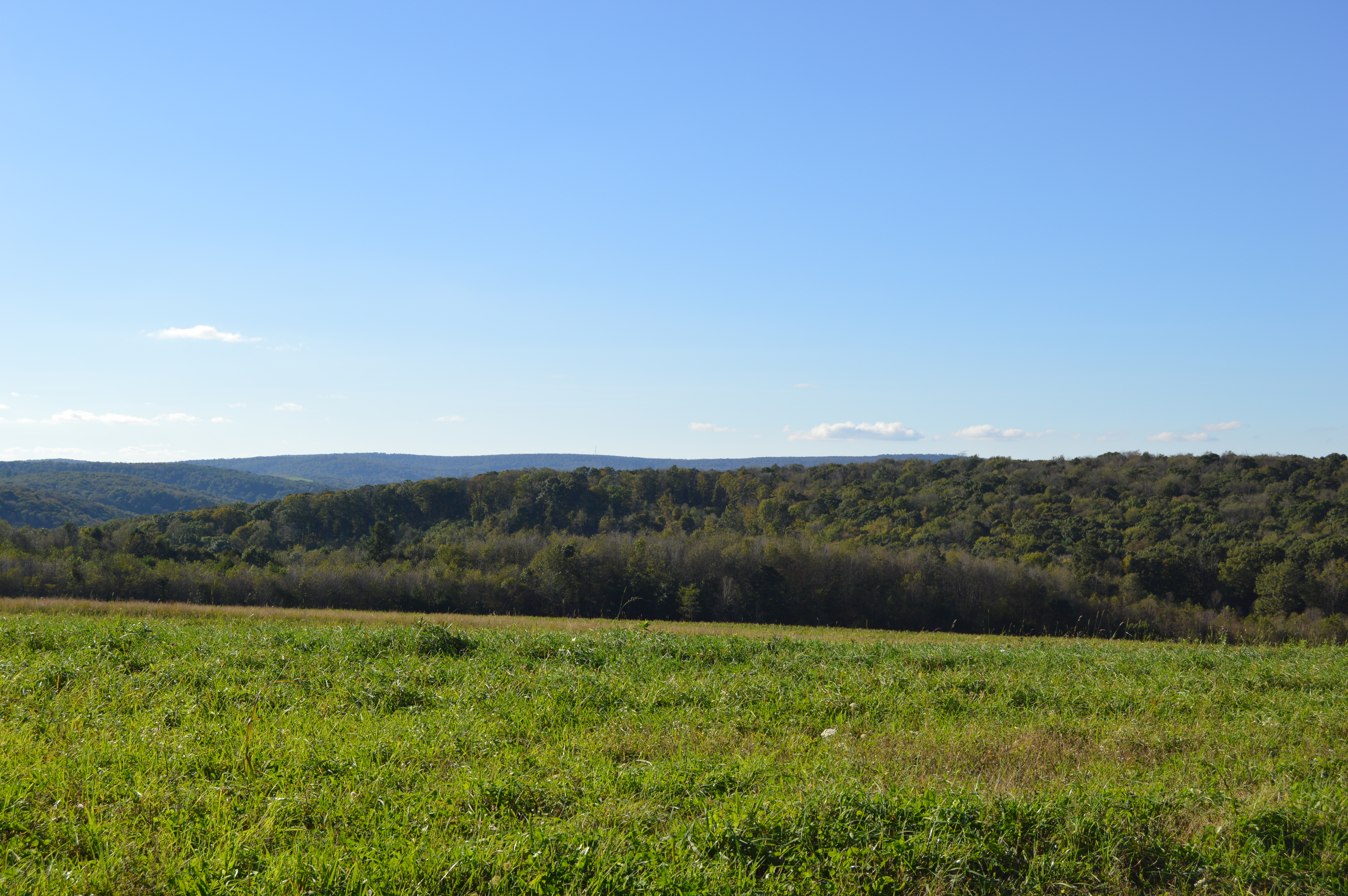 Scenery along Gameland Road in the entirely rural borough of Callimont, Pennsylvania, United States.